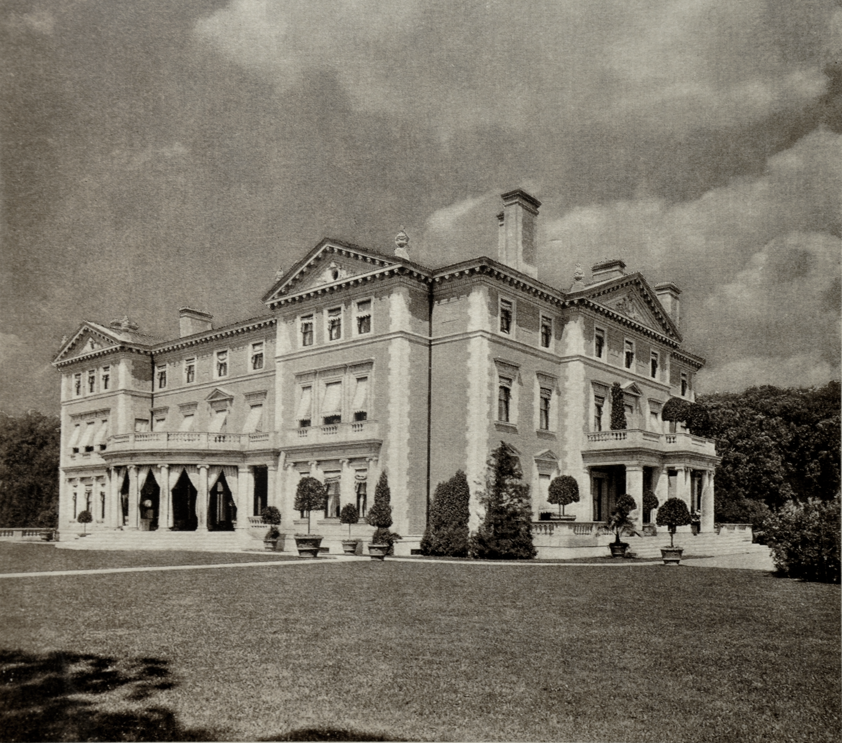 This is an image of the Woodlea estate in Briarcliff Manor, New York.